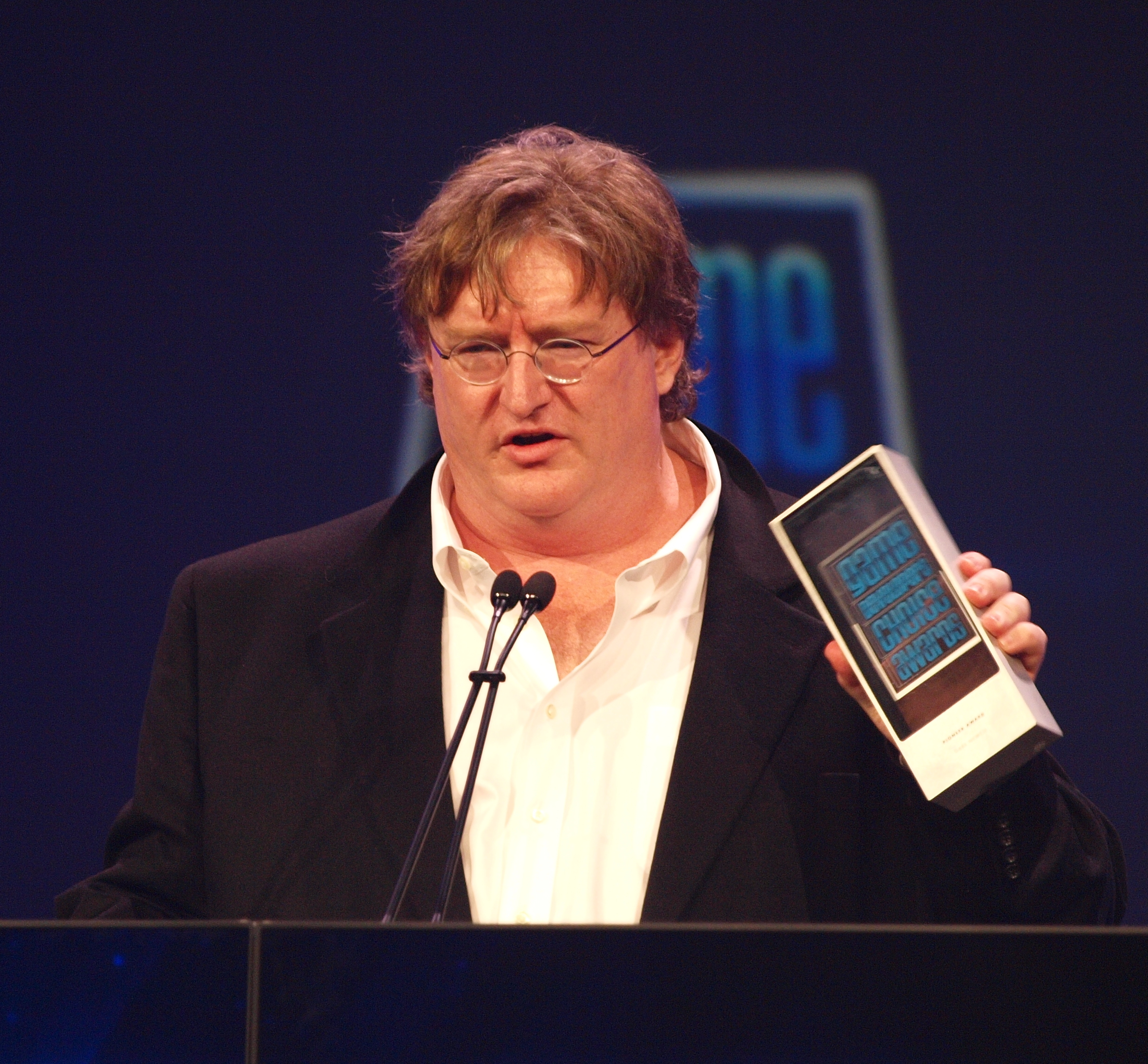 Gabe Newell, Game Developers Conference.